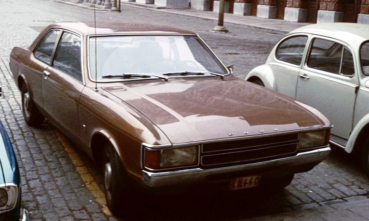 Ford Granada Consul 2 door Mark I badged as a Ford Consul till 1975